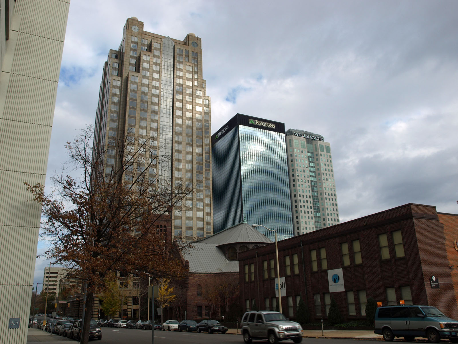 Skyscrapers in Birmingham, Alabama Left-right:Regions-Harbert Plaza, Regions Center, Wells Fargo Tower.